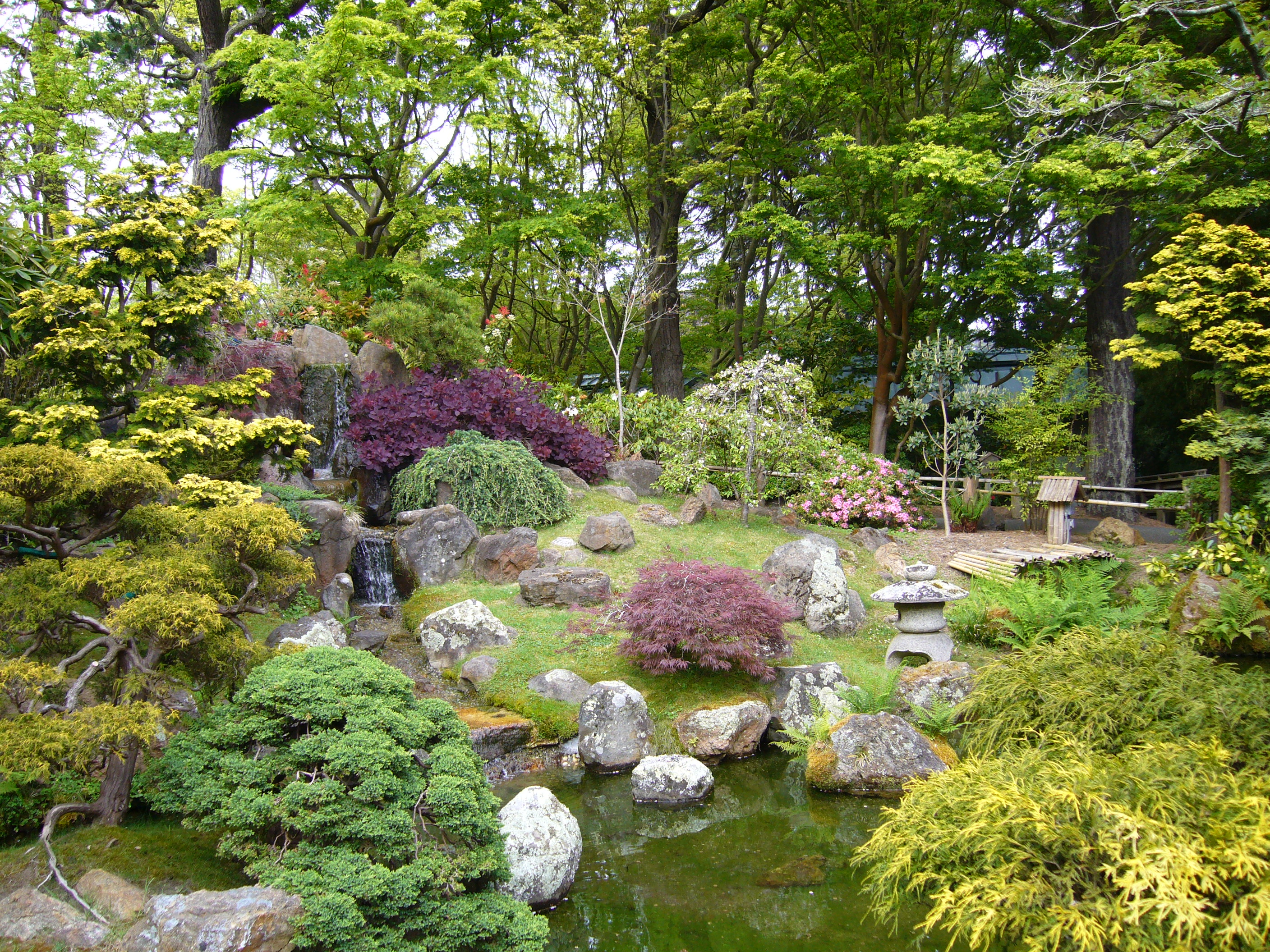 This is a Japanese garden which is located in San Francisco.